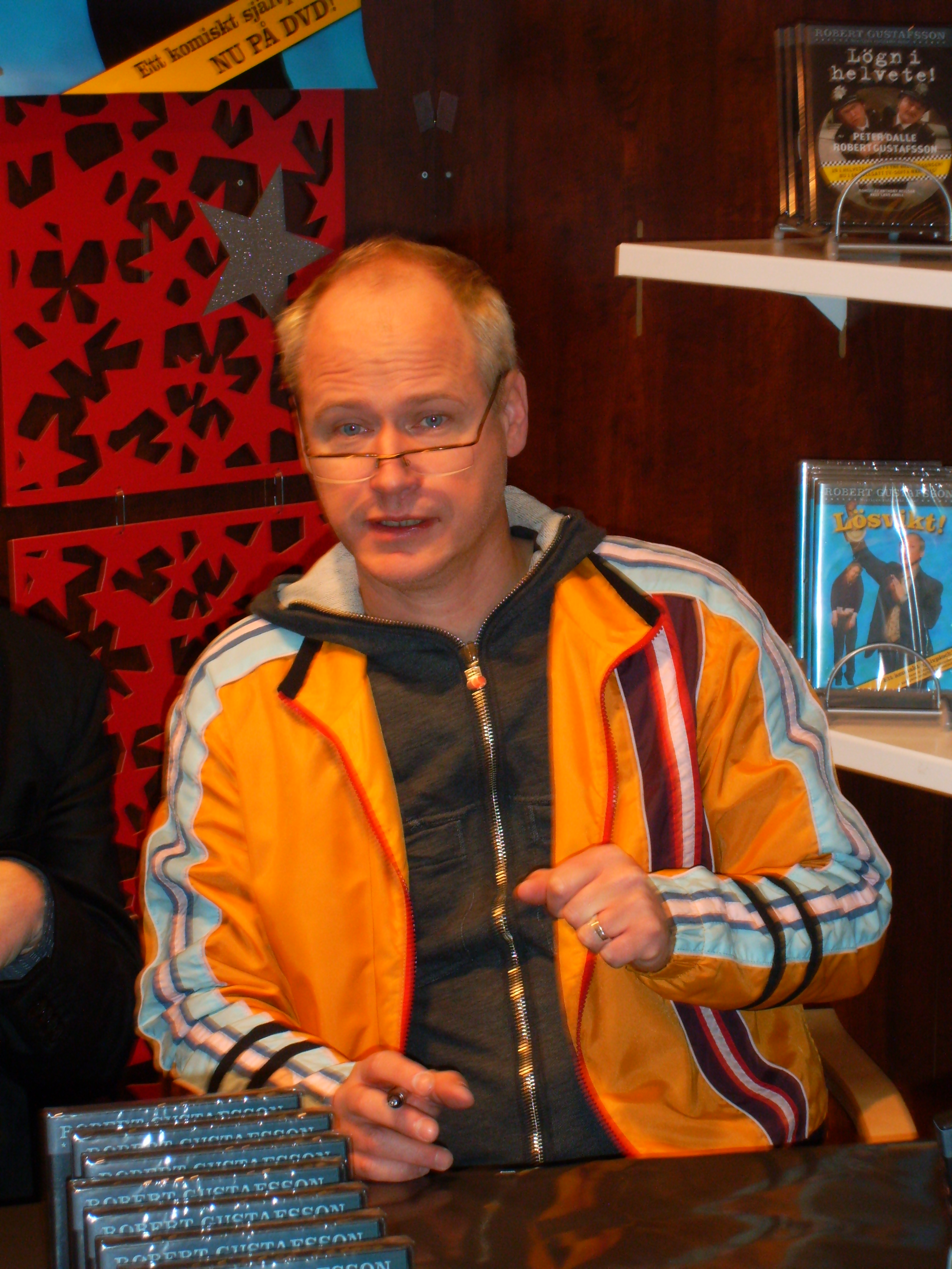 Robert Gustafsson, Swedish actor and comedian.